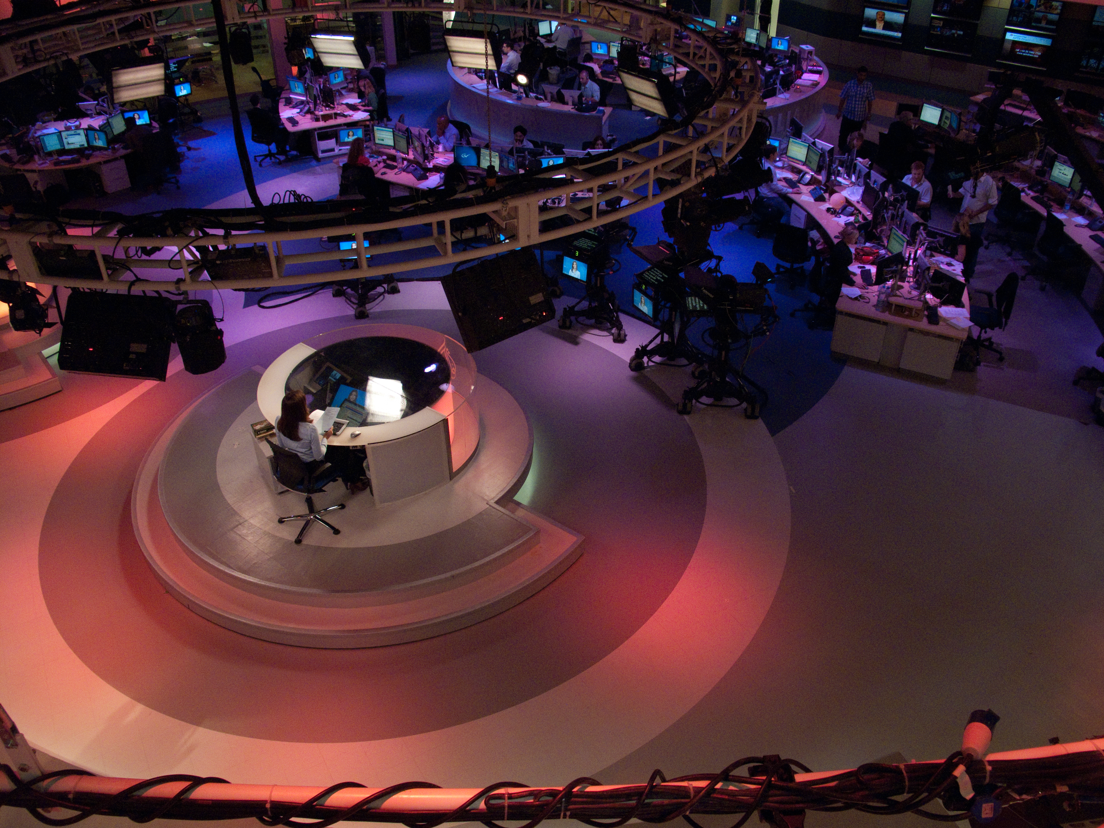 Photo taken at the Al Jazeera broadcast center in Doha, Qatar